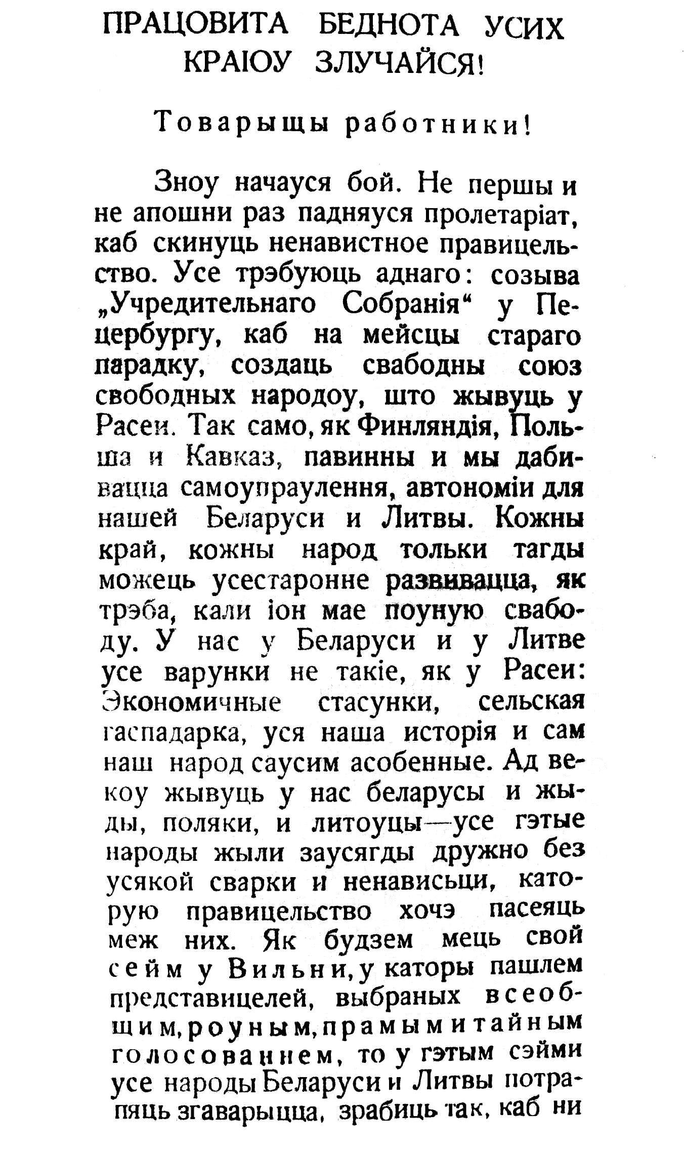 a leaflet of Belarusian Socialist Assembly - during Russian Revolution of 1905. Russian empire